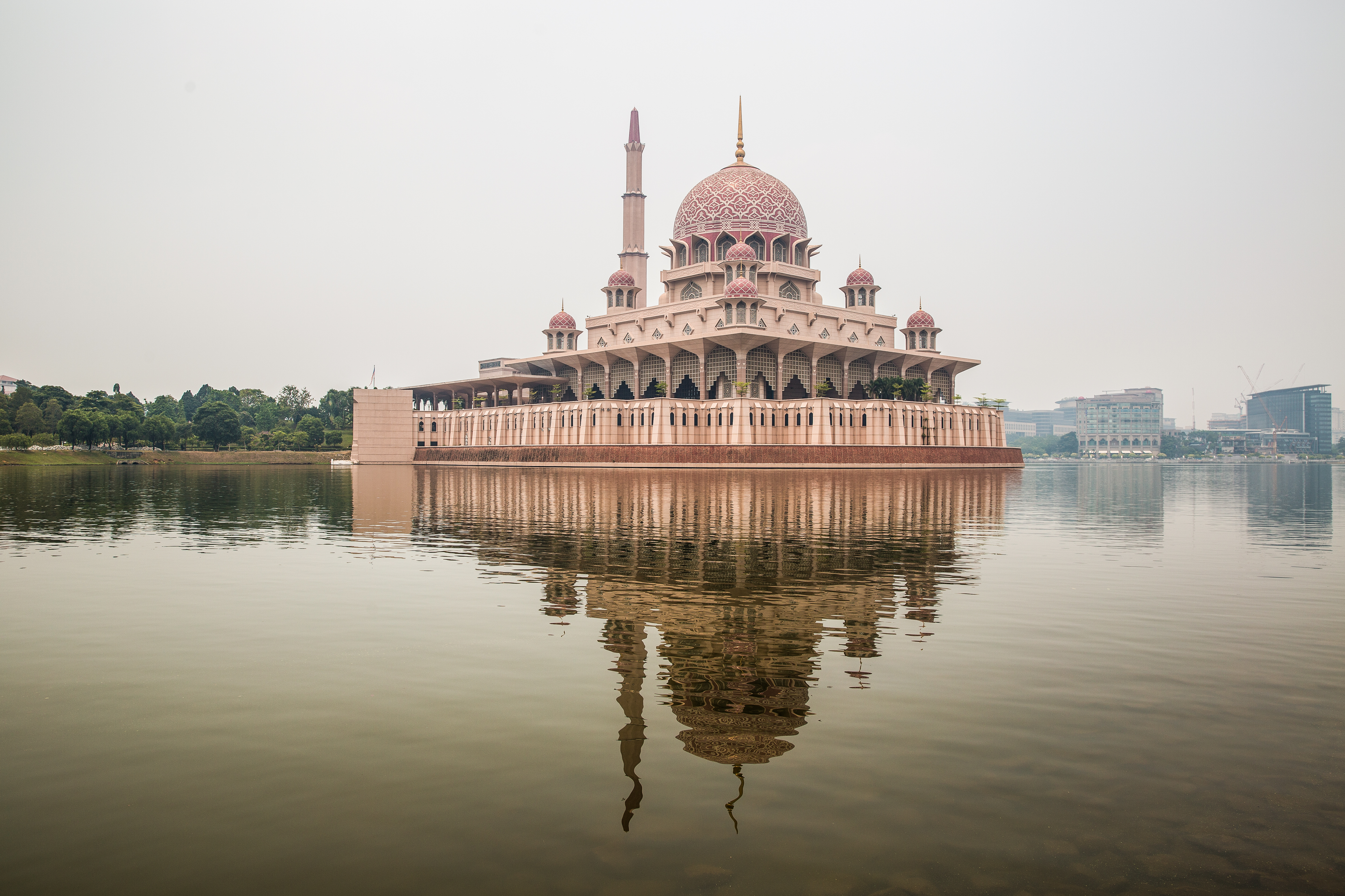 Putra Mosque